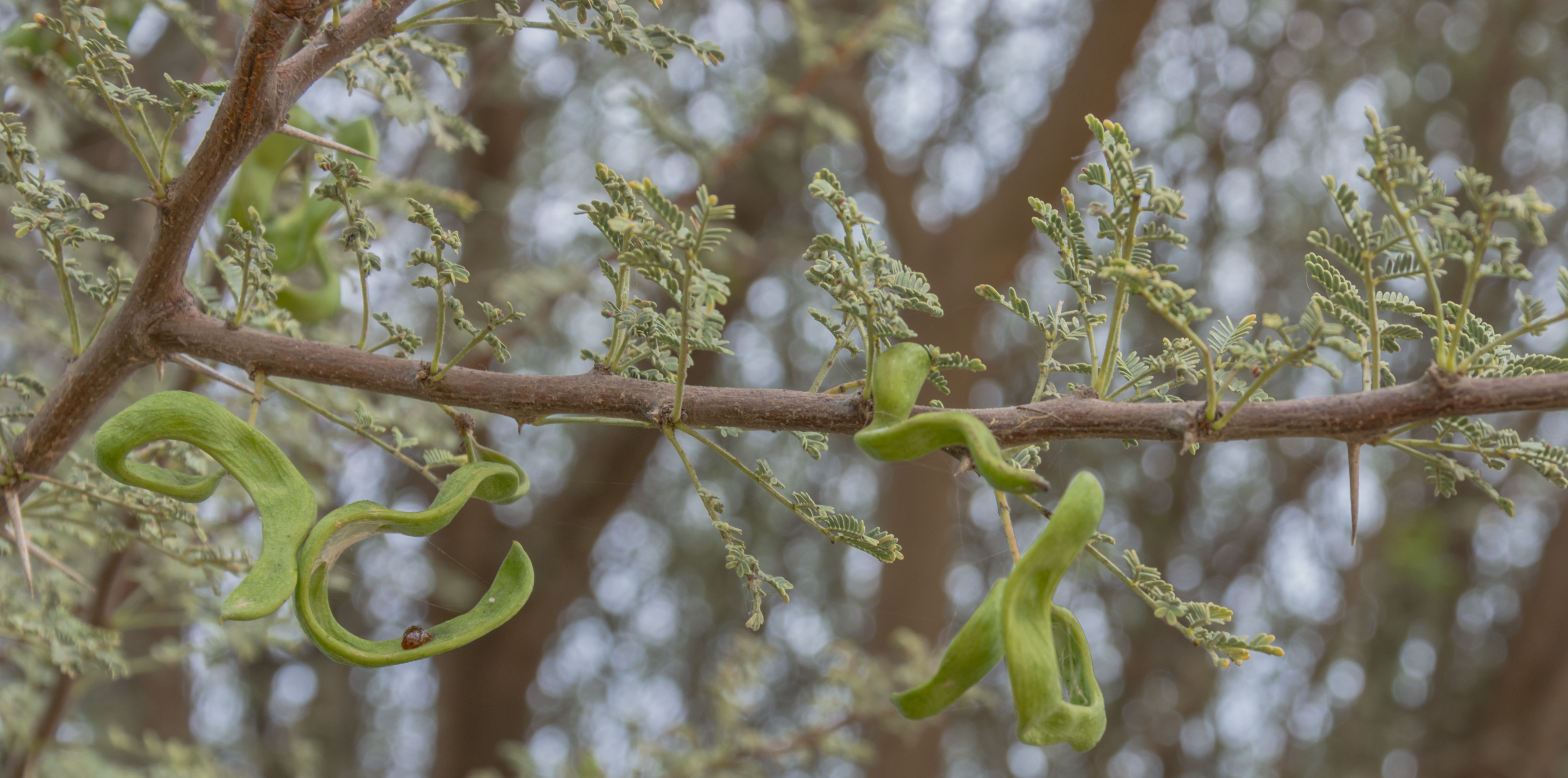 Acacia raddiana in Bouhedma National parc.